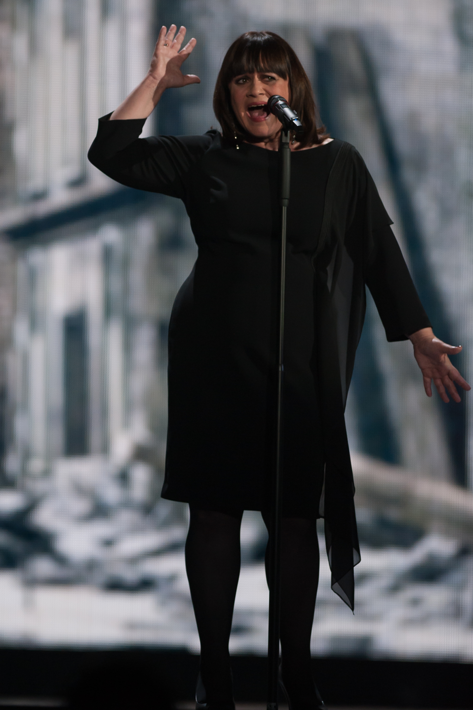 Eurovision Song Contest Vienna 2015: Lisa Angell